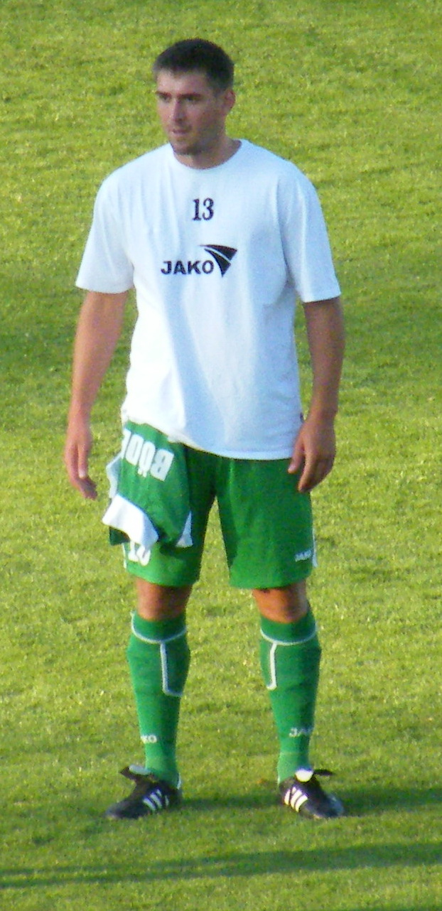 Dániel Böde Hungarian football player